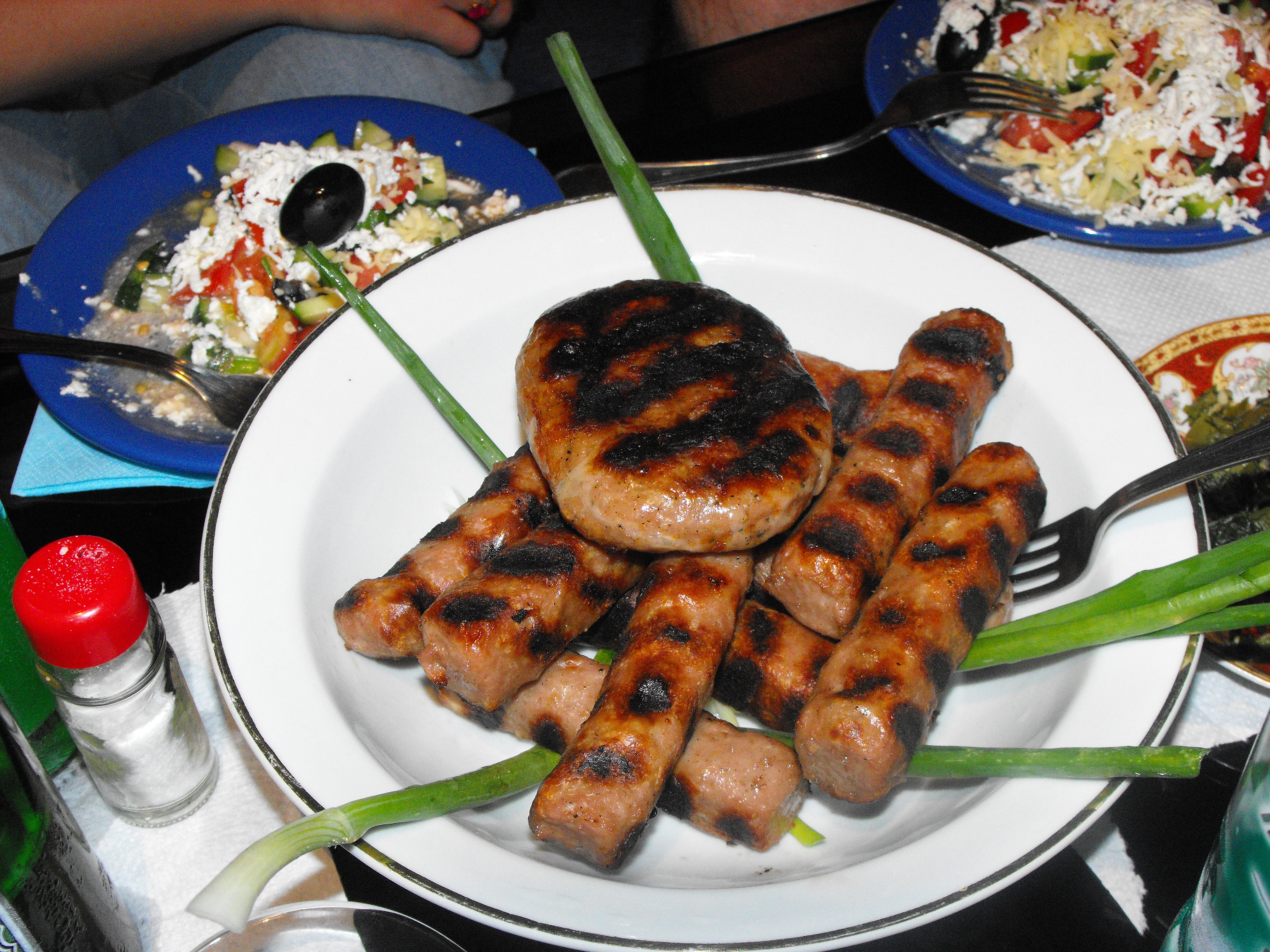 Kebapche - typical food for the Bulgarian and Balkanian cuisine, made of minced meat and spices.